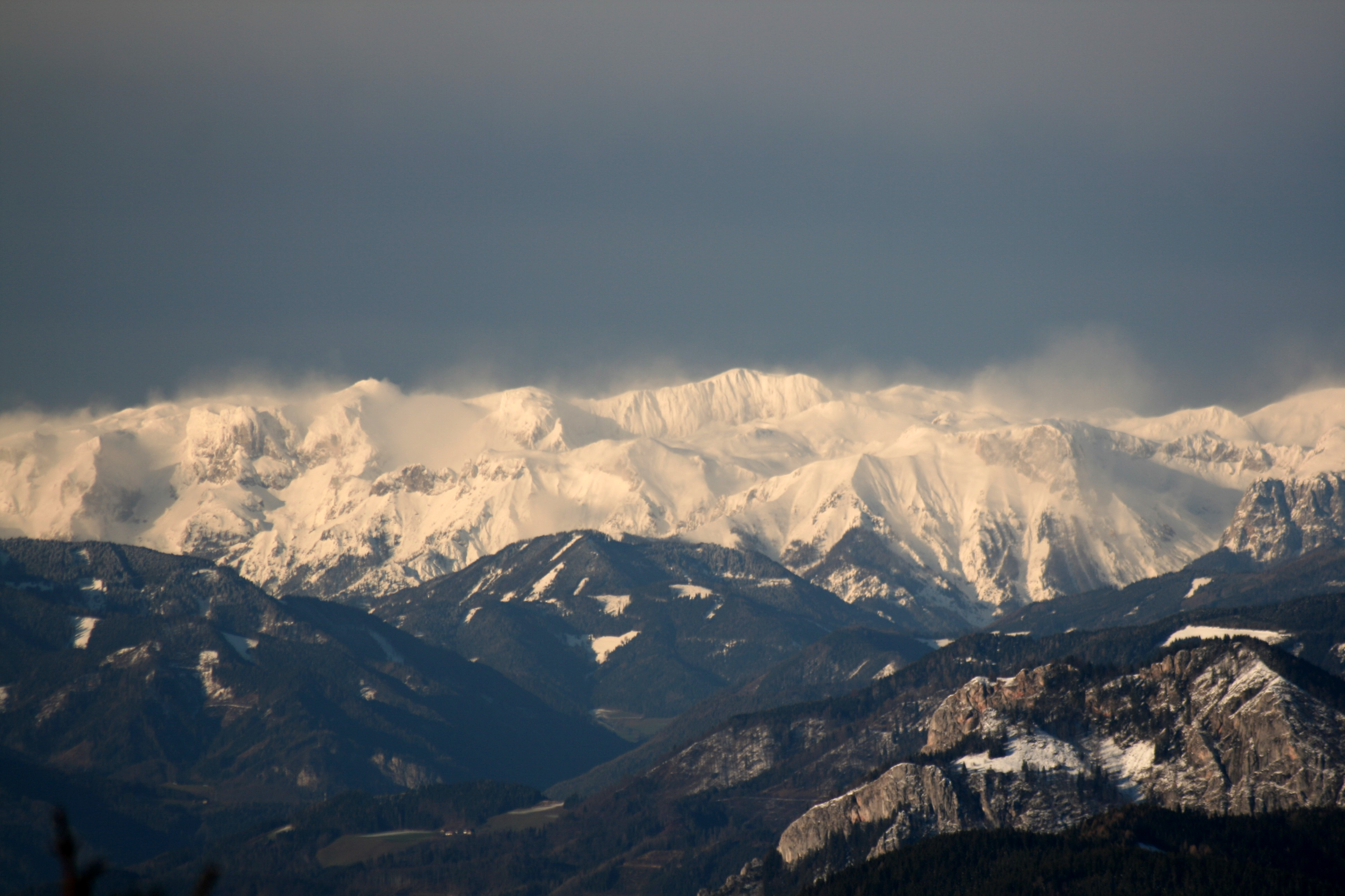 "Hochschwab" mountain, seen from "Schöckl" mountain. Styria, Austria, Europe